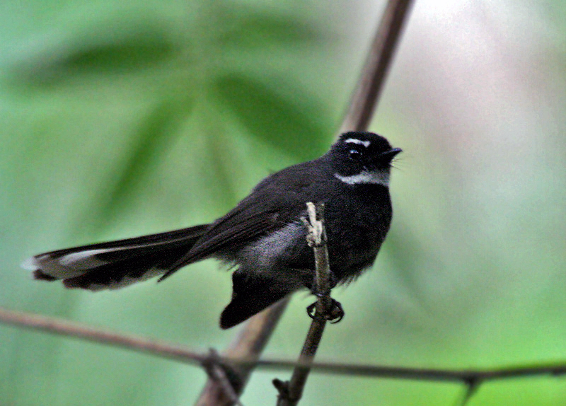 White-throated Fantail ((Rhipidura albicollis)) in Kolkata, West Bengal, India.